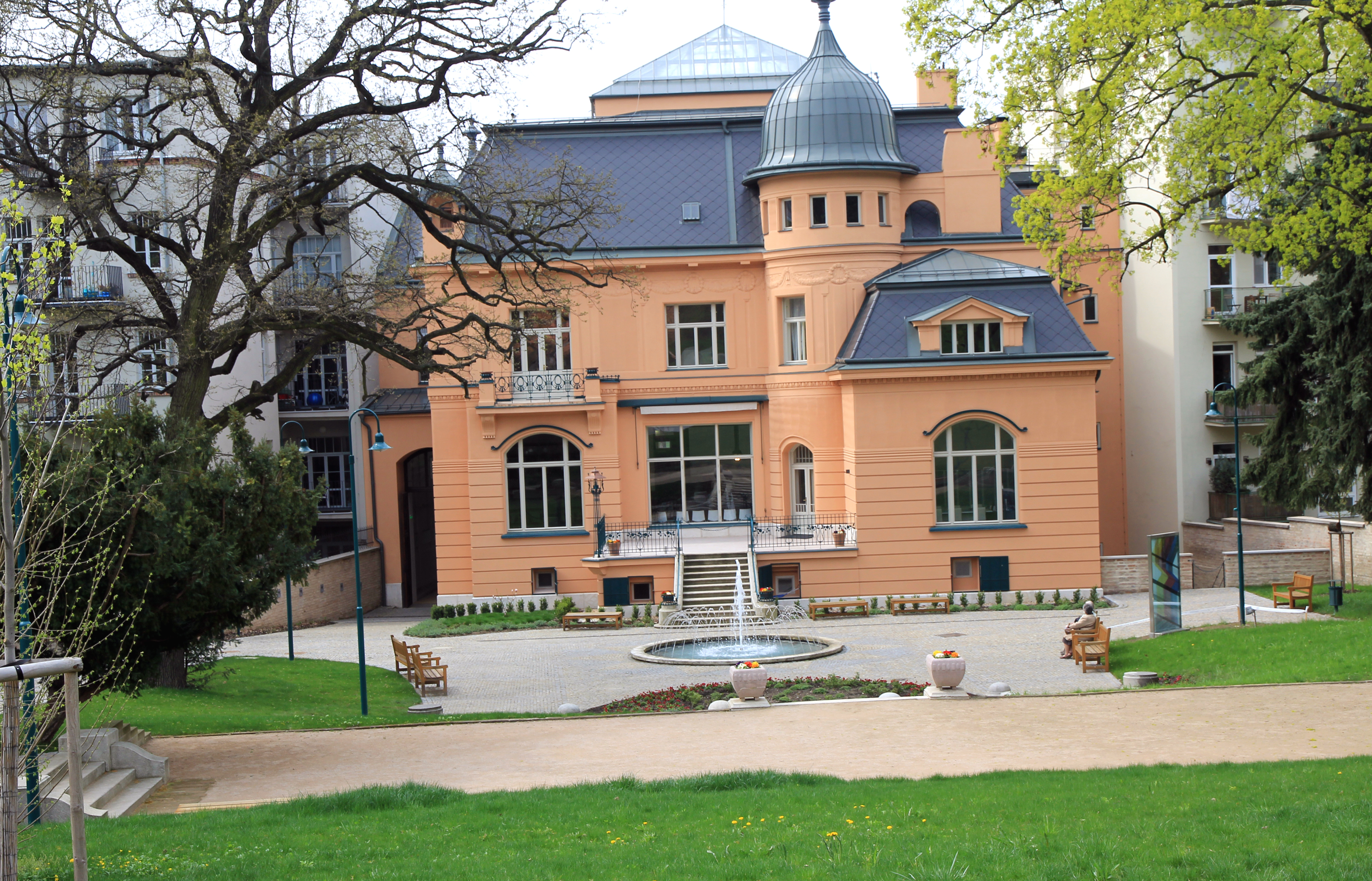 Villa Löw-Beer in town Brno, Czech Republic